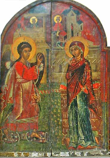 Royal Doors in Saint Blaise Church in Lazhani